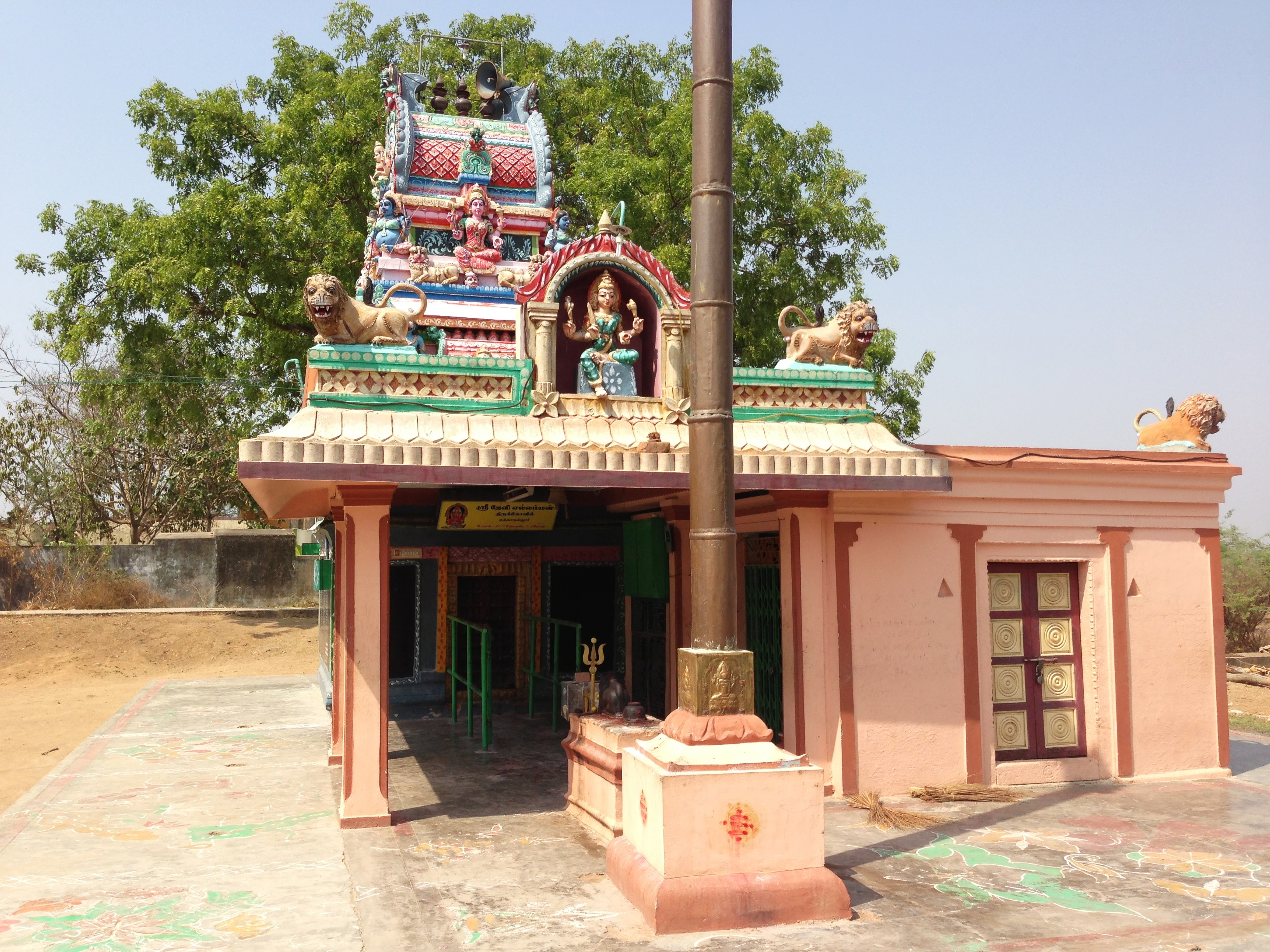 Ellai Amman Temple Front View, Nathanallur. Located Towards North.